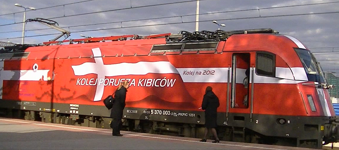 One of Polish ES64U4 Taurus (EU44 Husarz) locomotives which were painted in colours of the Euro2012 finalists (Denmark)